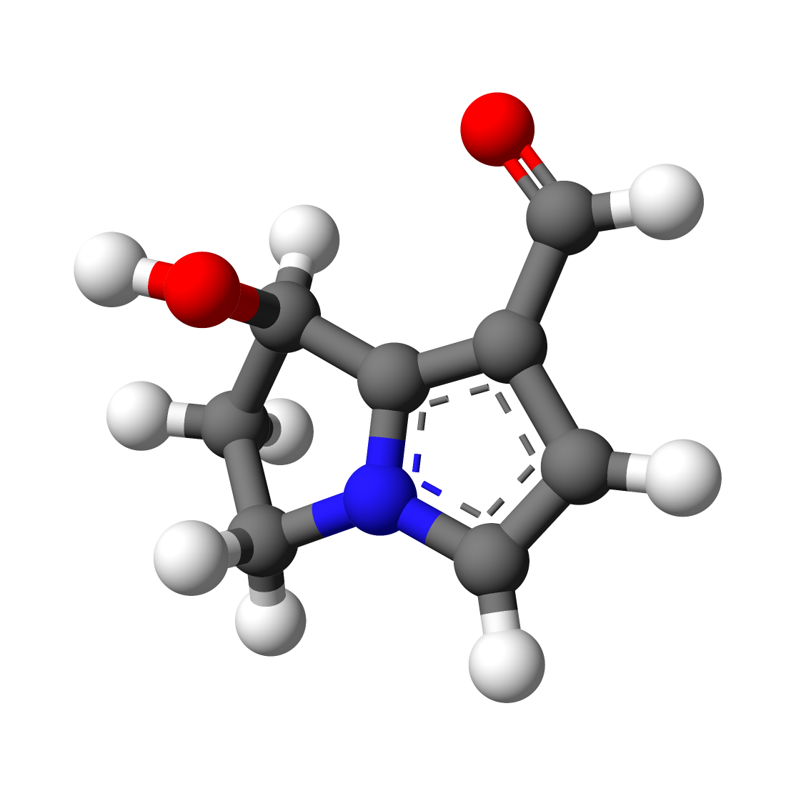 A model of hyxdroxydanaidal